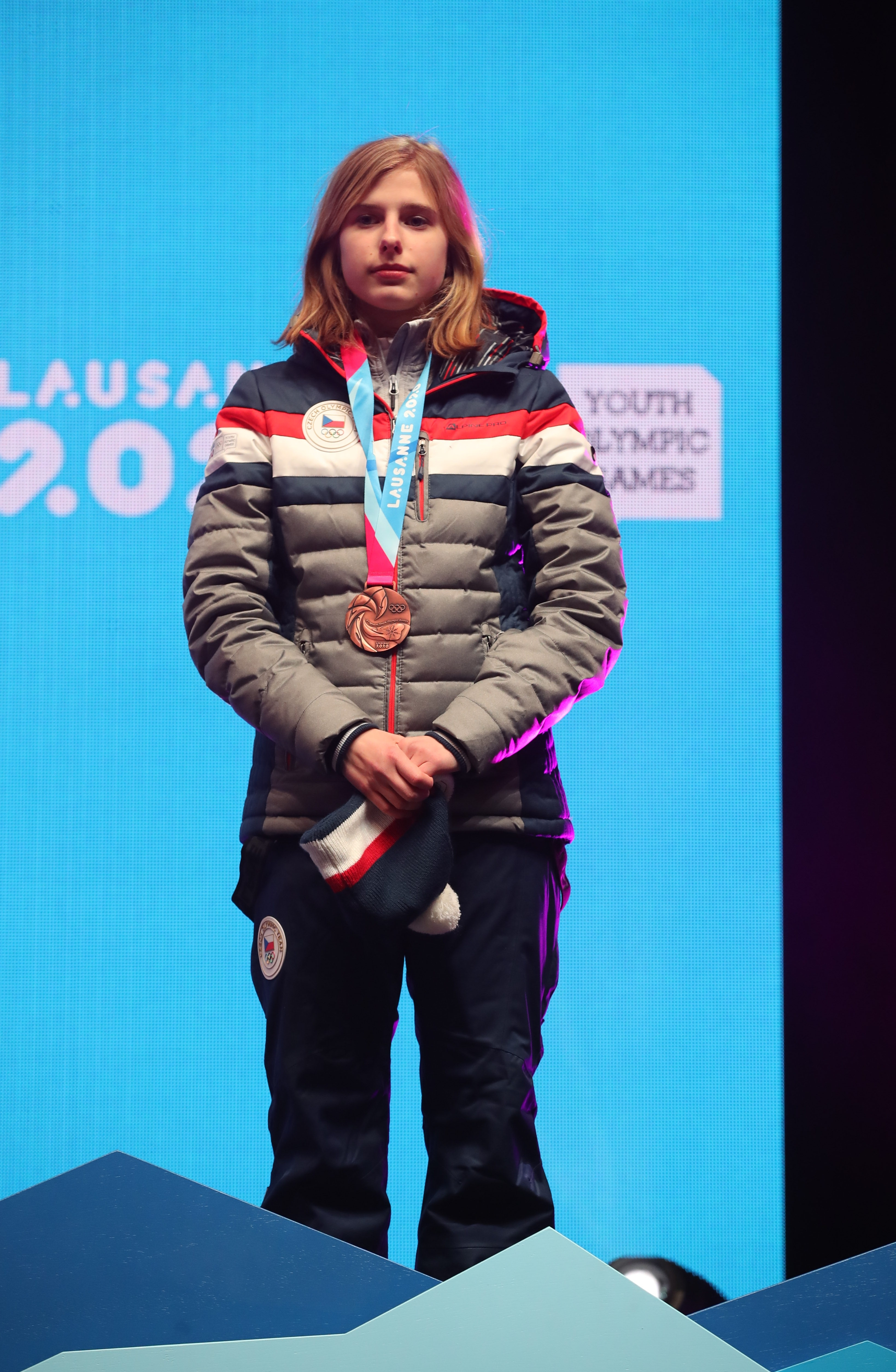 Medal Ceremony of Ski jumping – Women's Individual at the 2020 Winter Youth Olympics in Lausanne on 19 January 2020.